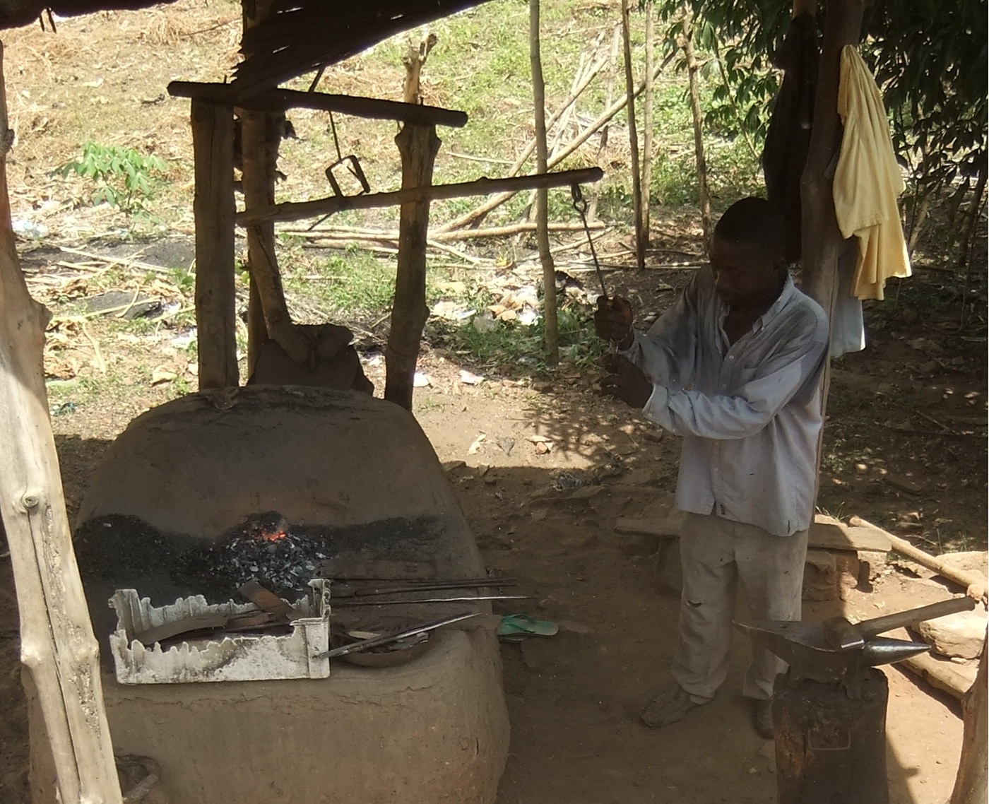 Western village, Togo This is an image of "African people at work" from Togo